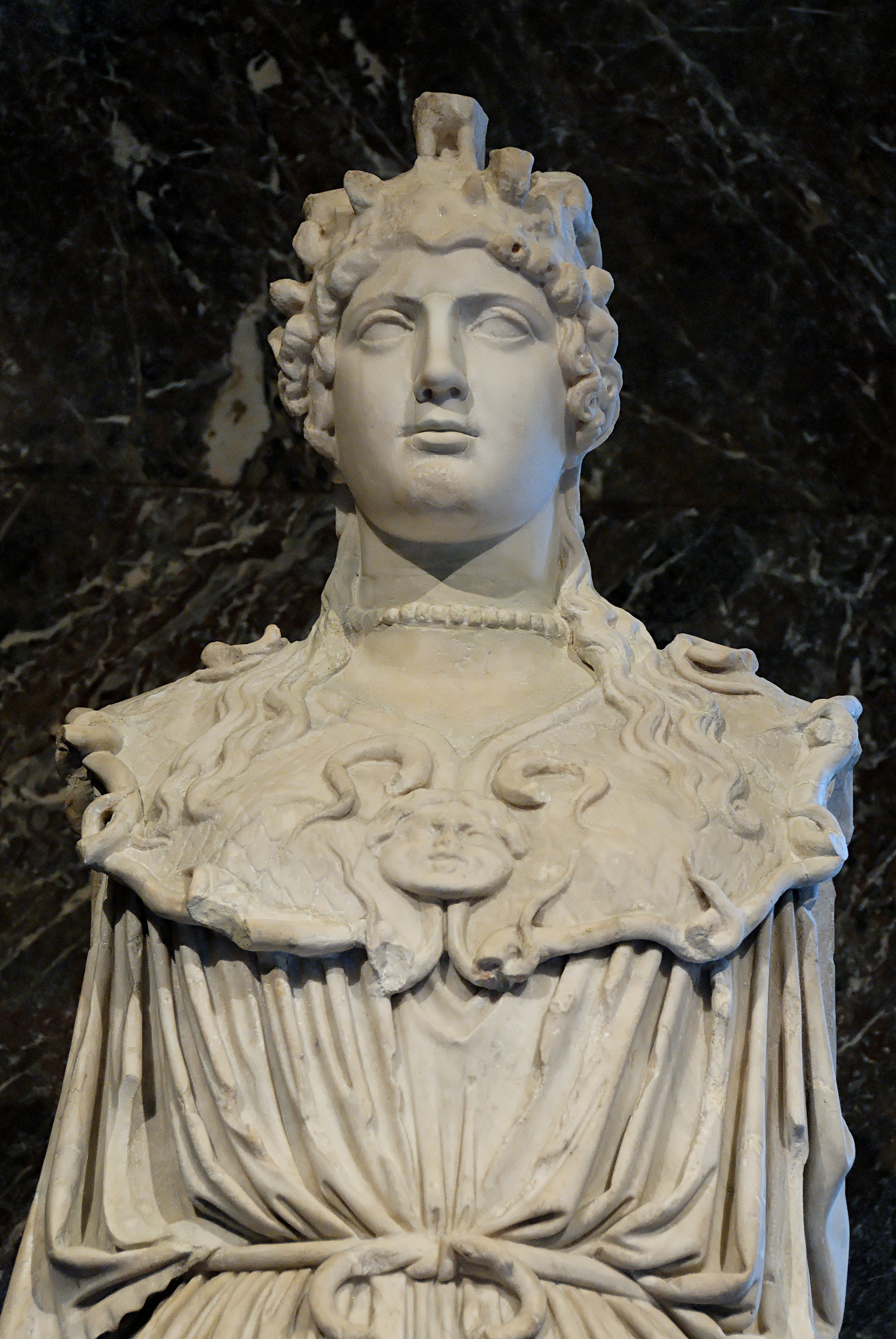 Athena of the Athena Parthenos type, detail. Parian marble (body) and Pentelic marble (head), Roman copy from the 1st–2nd century AD after the 5th century BC original by Phidias.